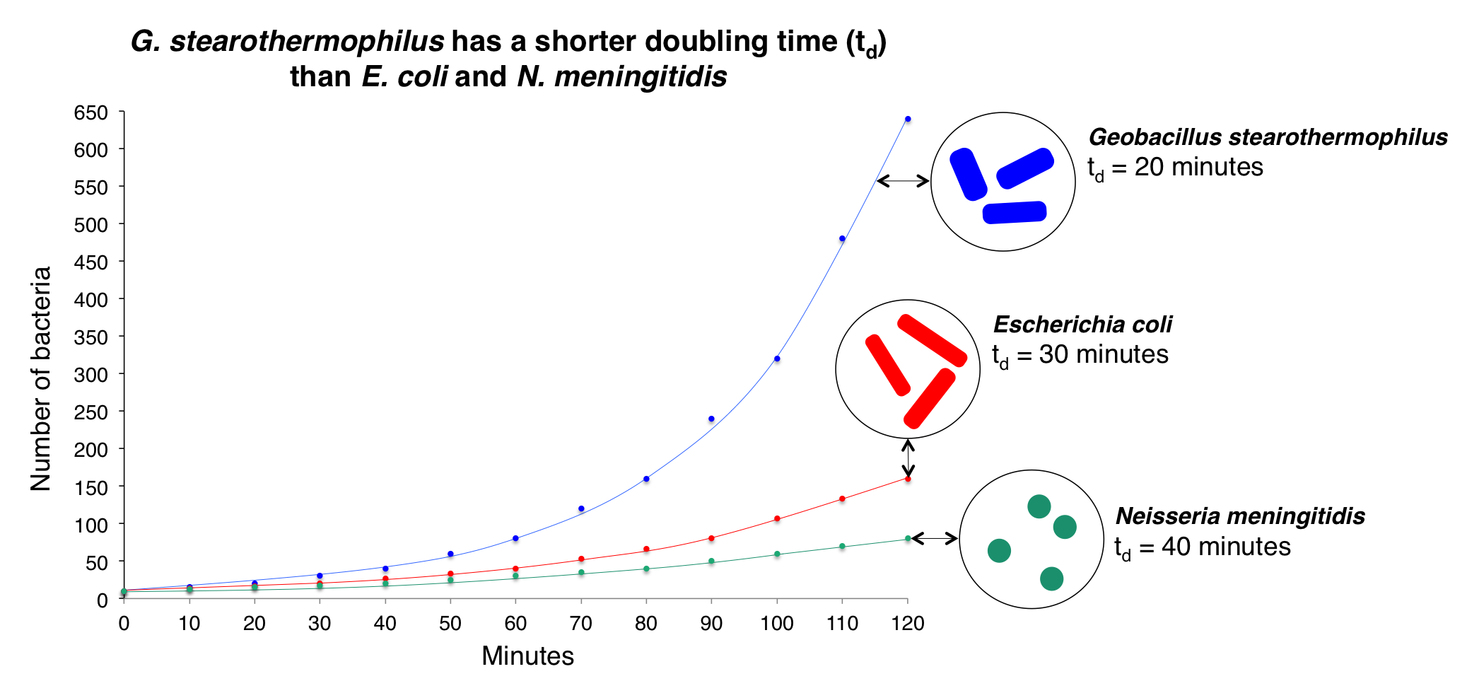 This graph compares the growth rate of three bacterial species: Geobacillus stearothermophilus, Escherichia coli, and Neisseria meningitidis, all of which have different doubling times: 20, 30, and 40 minutes respectively. G. stearothermophilus will grow at a much faster rate than E. coli or N. meningitidis even though its doubling time is only 10 and 20 minutes shorter respectively.